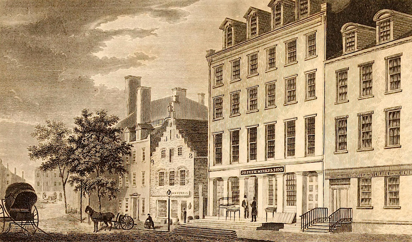 Caption: "BROAD STREET. (Custom House in the distance.)" Credit line: " Drawn by A. J. Davis. Engraved by J. Archer." Text, pp. 40-41, states, "[The engraving] represents a building (recently taken down) which stood on the east side of Broad street, No. 41. It was one hundred and thirty-two years old, and was one of the few which escaped the memorable conflagration of 1776." The gable displays the digits "1", "6", "9", and "8". Compare to